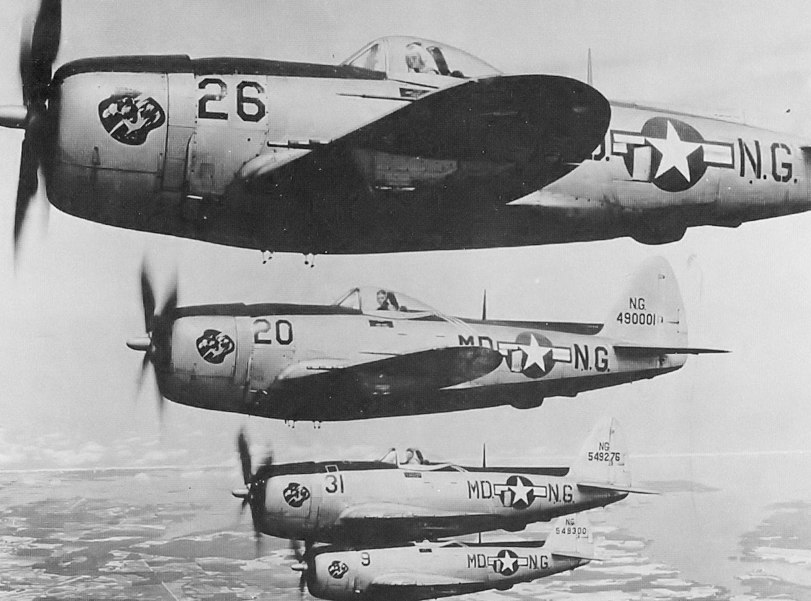 104th Fighter Squadron - P-47 Thunderbolts 1947